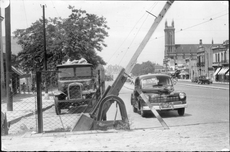 Level crossing on Sáenz avenue in Nueva Pompeya, Buenos Aires. View from the north, with the church "Our Lady of Rosario of Pompeya" (Ntra. Sra. del Rosario de Pompeya) at the background. On the front, a Mercury 1947.